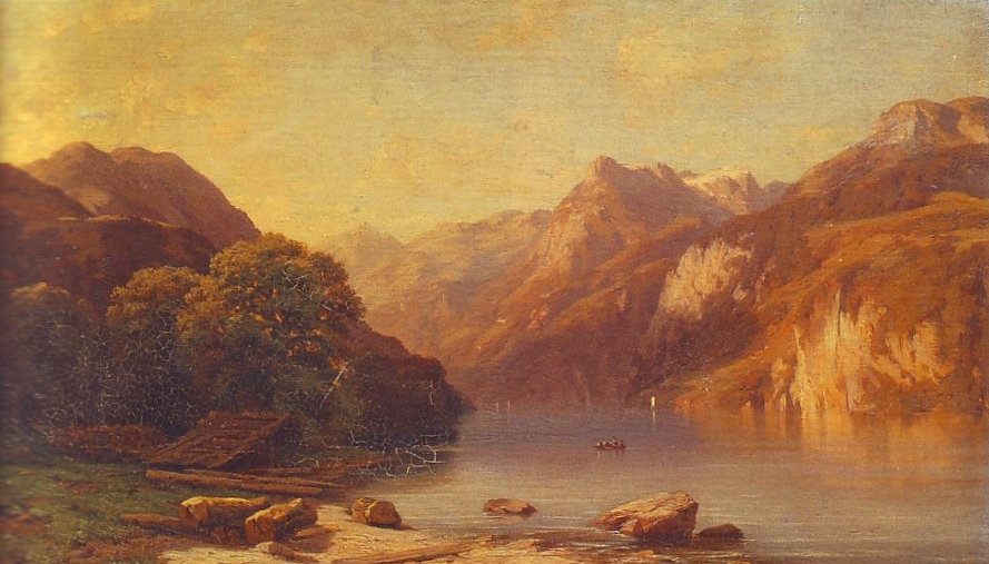 Mikhail Spiridonovich Erassi